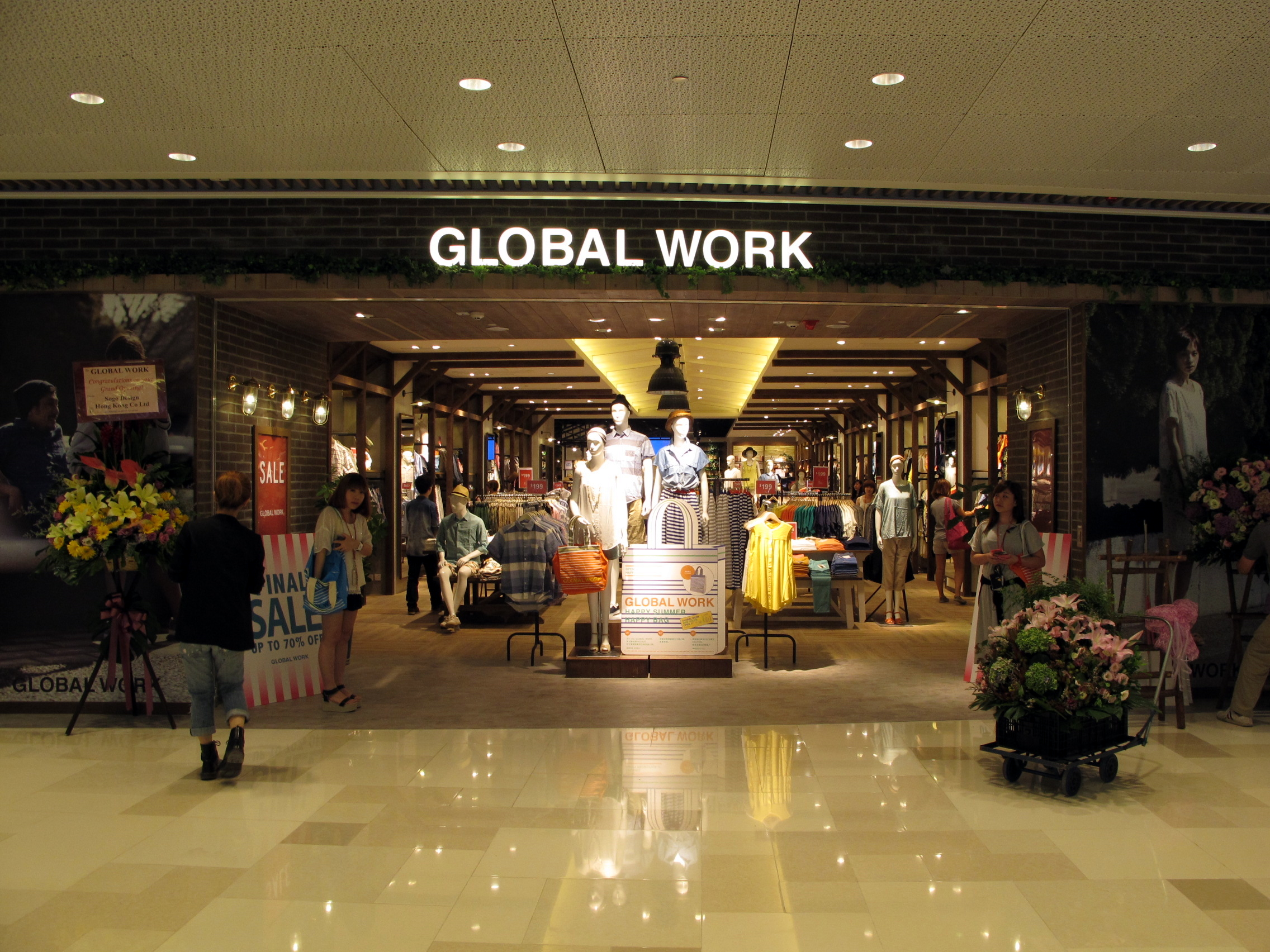 Global Work in Hong Kong V city